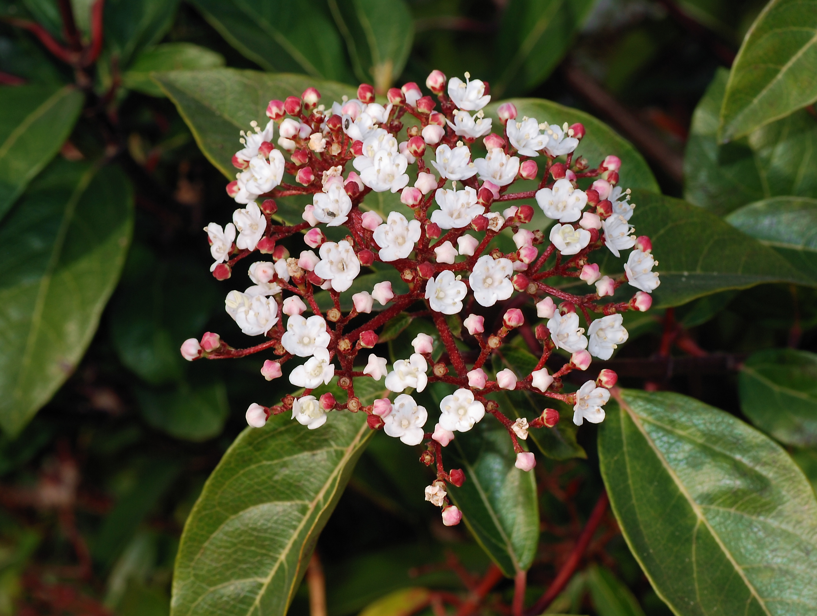 A Lauristinus flower and leaves (Viburnum tinus)